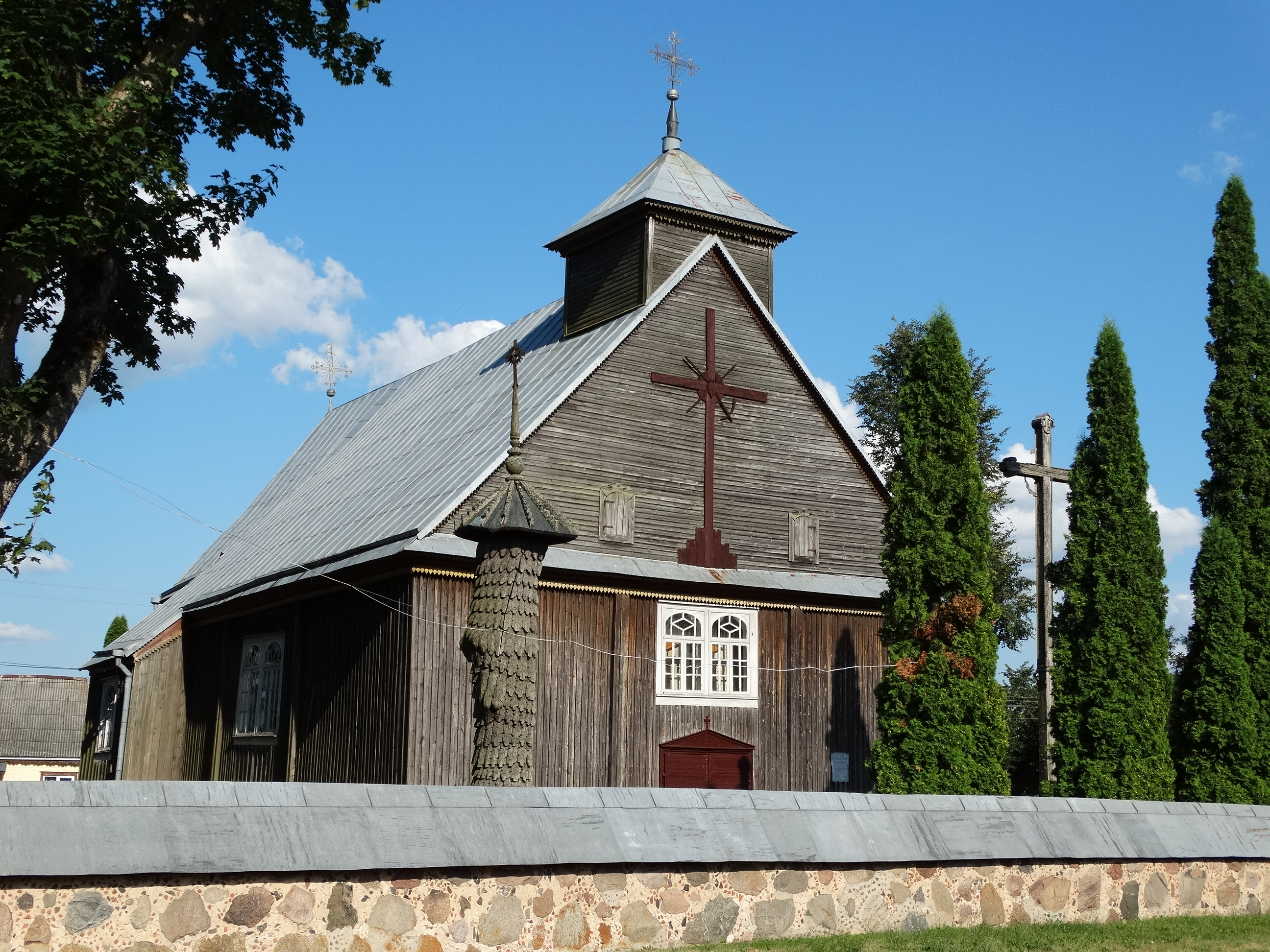 Church, Inturkė, Molėtai district, Lithuania